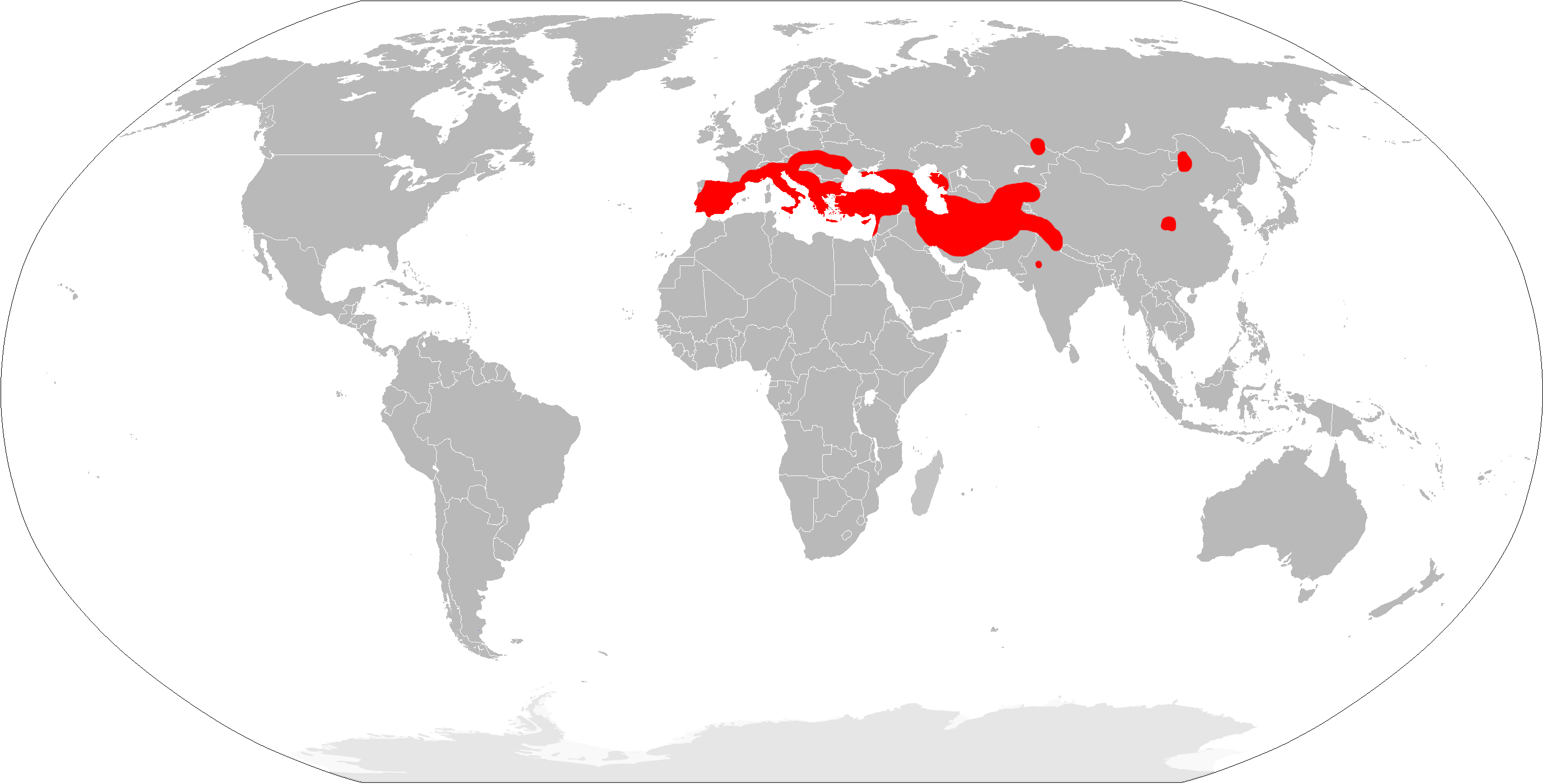 Myotis blythii range map.